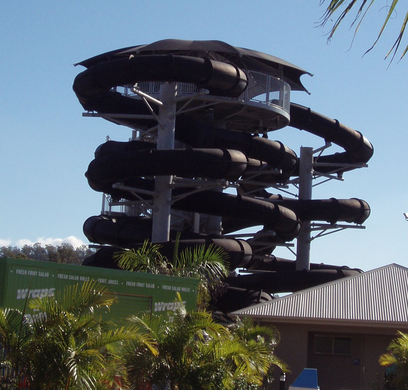 Wet'n'Wild Water World Australia Blackhole